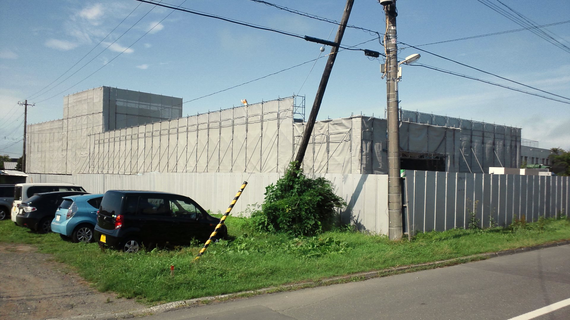 Mukawa Kosei Hospital new building